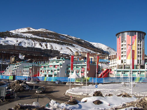 The Olympic Village at Sestriere.(ATR)